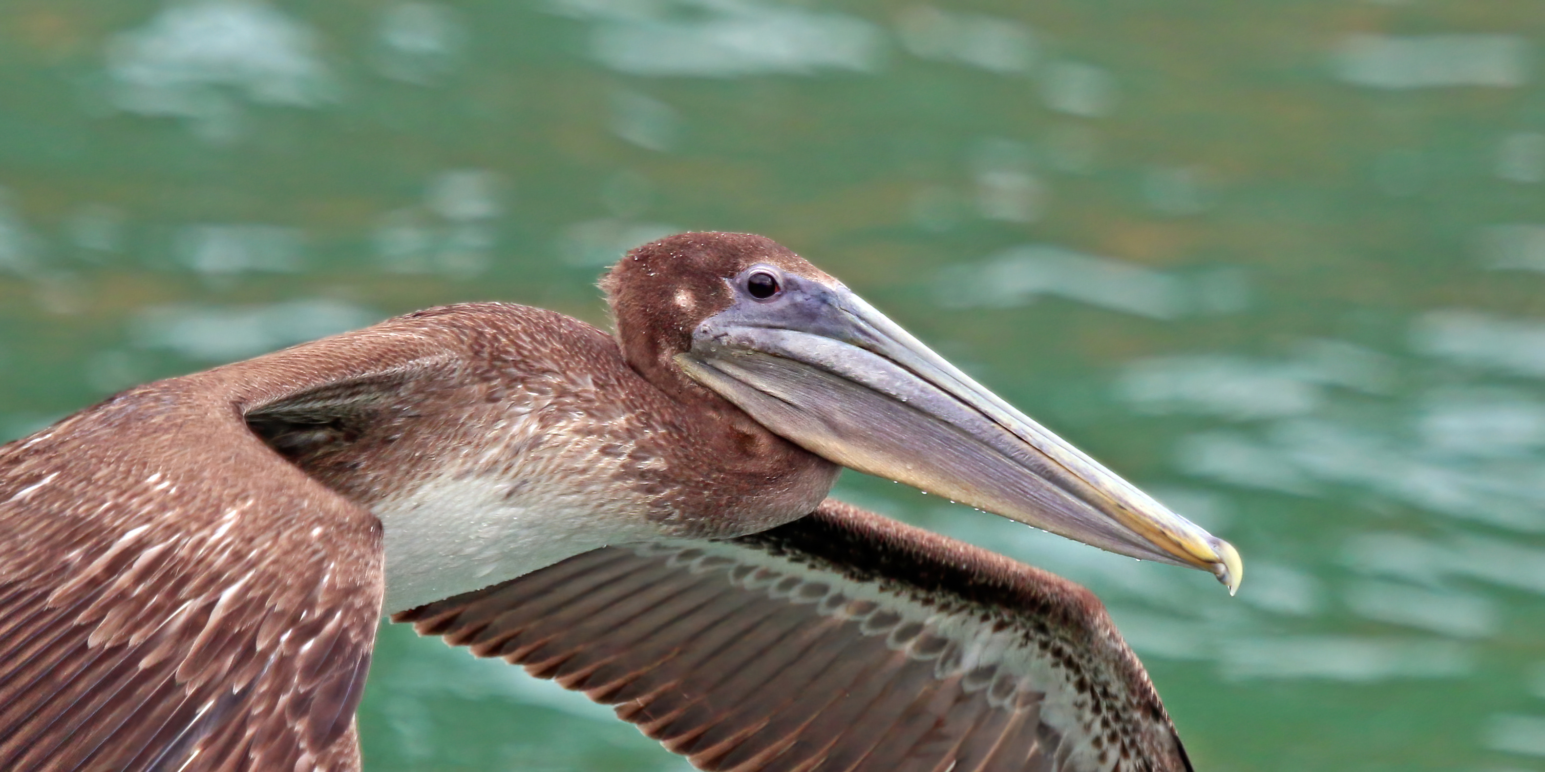 Brown pelican (Pelecanus occidentalis occidentalis) immature, Tobago